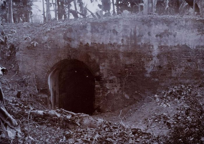 Tunnel entrance